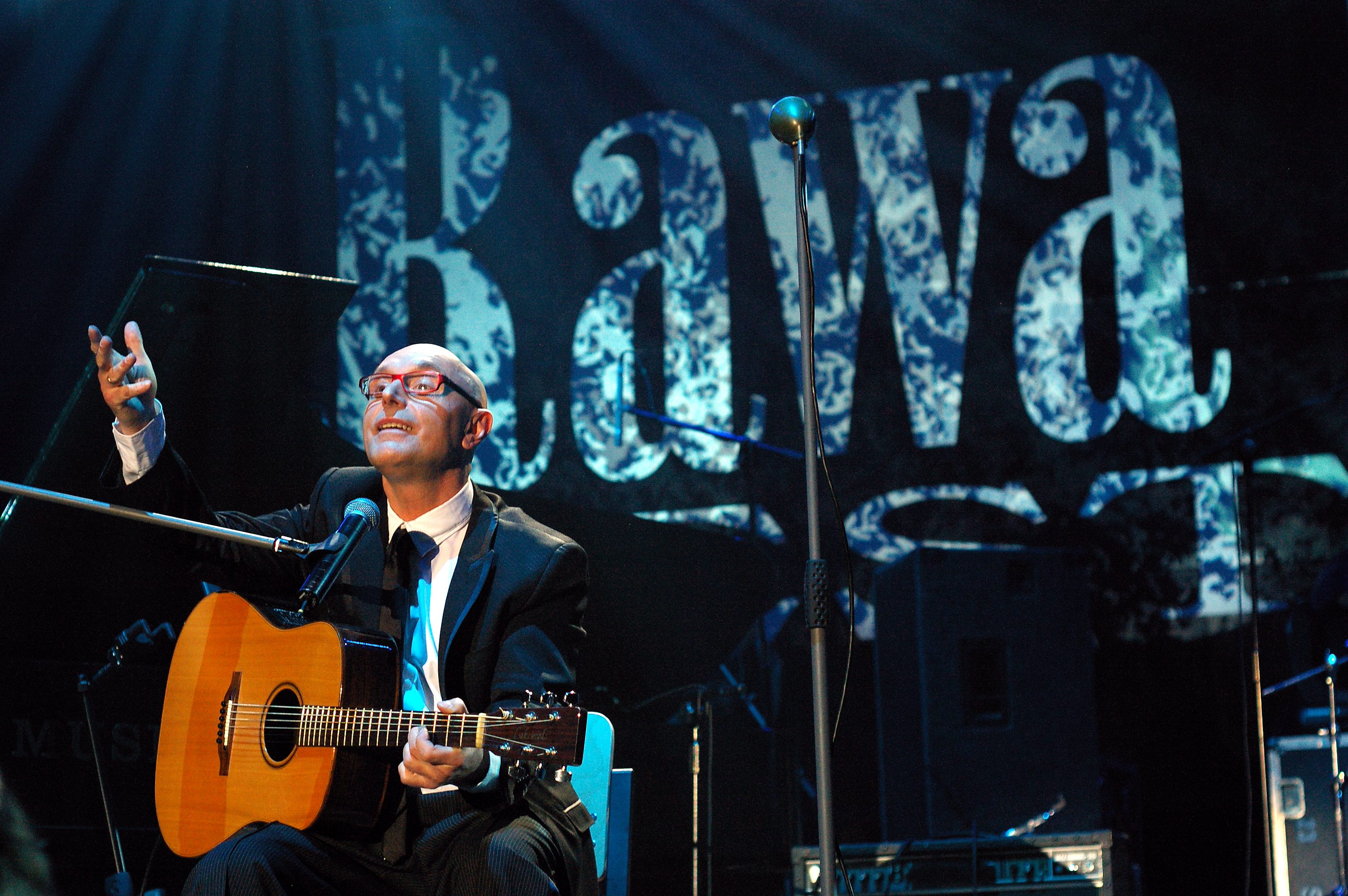 Taking of this photo was in cooperation with Rawa Blues (homepage) Irek Dudek podczas 30 Festiwalu Rawa Blues 2010 09.10.2010 Katowice Spodek